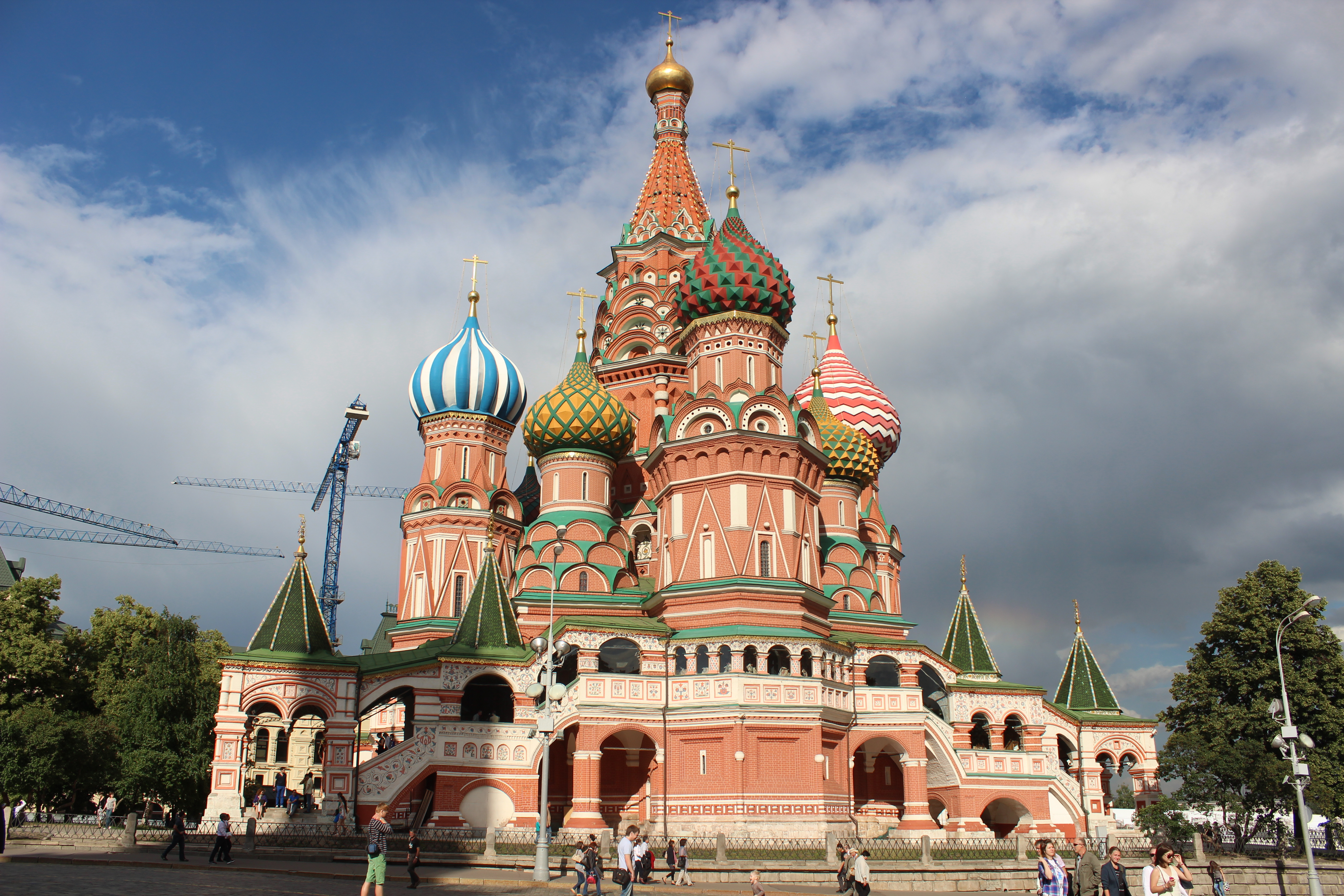 St. Basil's Cathedral, Moscow,Jun.19.2013